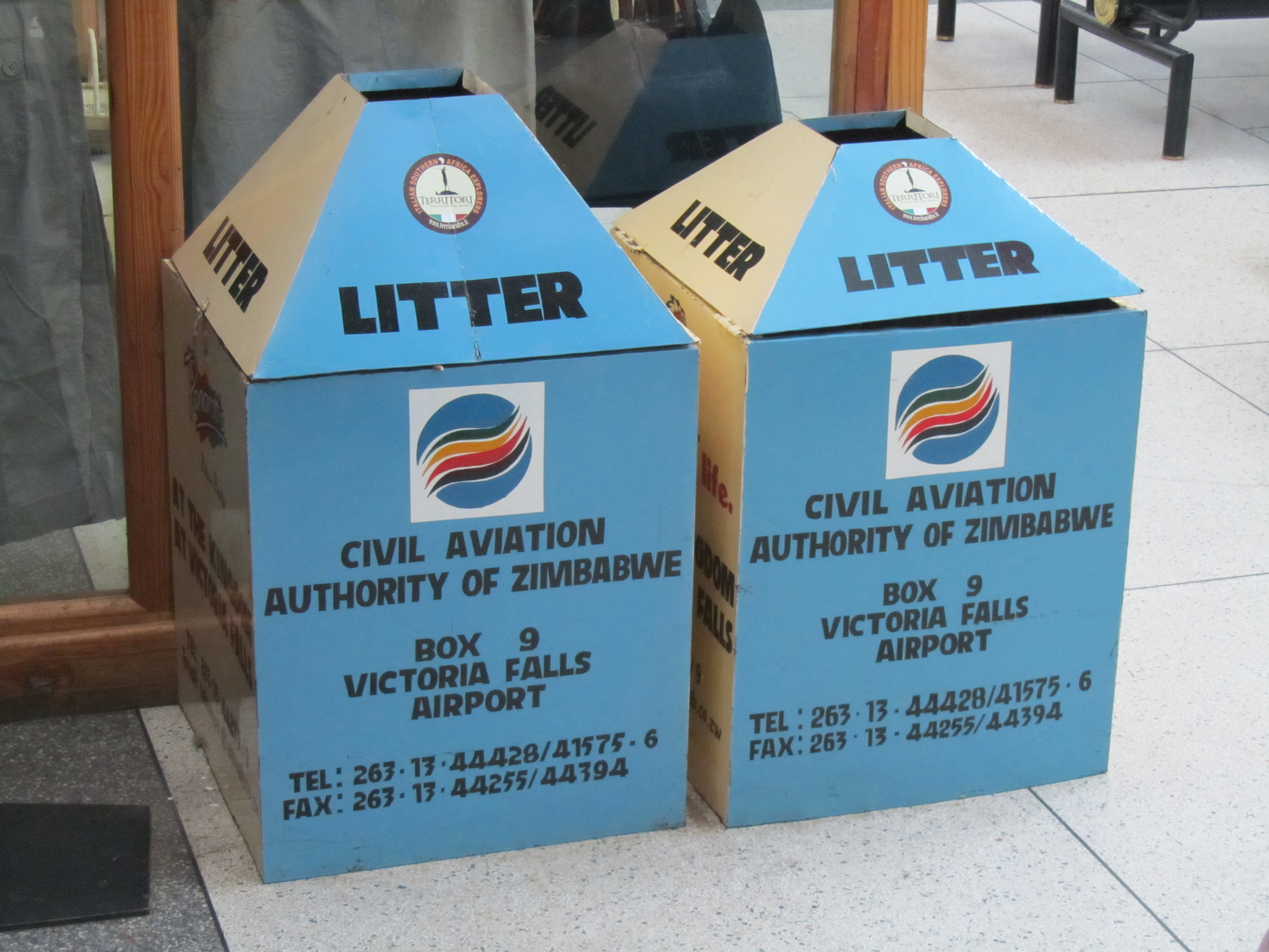 There are two trashcans bearing the logo of the Zimbabwe Civil Aviation Authority. The photo was taken at Victoria Falls Airport.